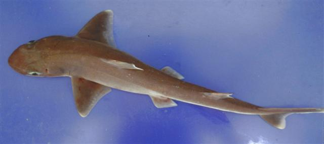 Longnose spurdog (Squalus blainville) from the Mediterranean Sea, Spain